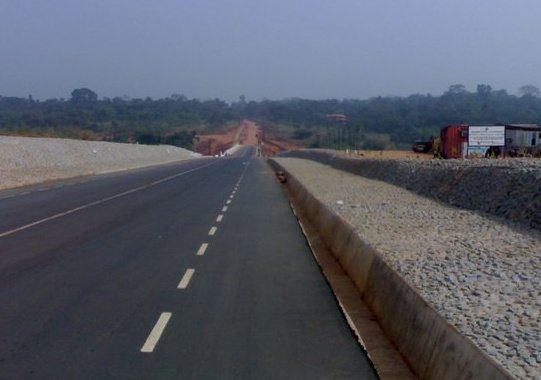 Odo bridge was recorded the longest bridge constructed by Anambra State in 2010 under the Government of Mr Peter Obi,the Governor of Anambra State.The bridge is located between Awgbu,Oko and Amaokpala.